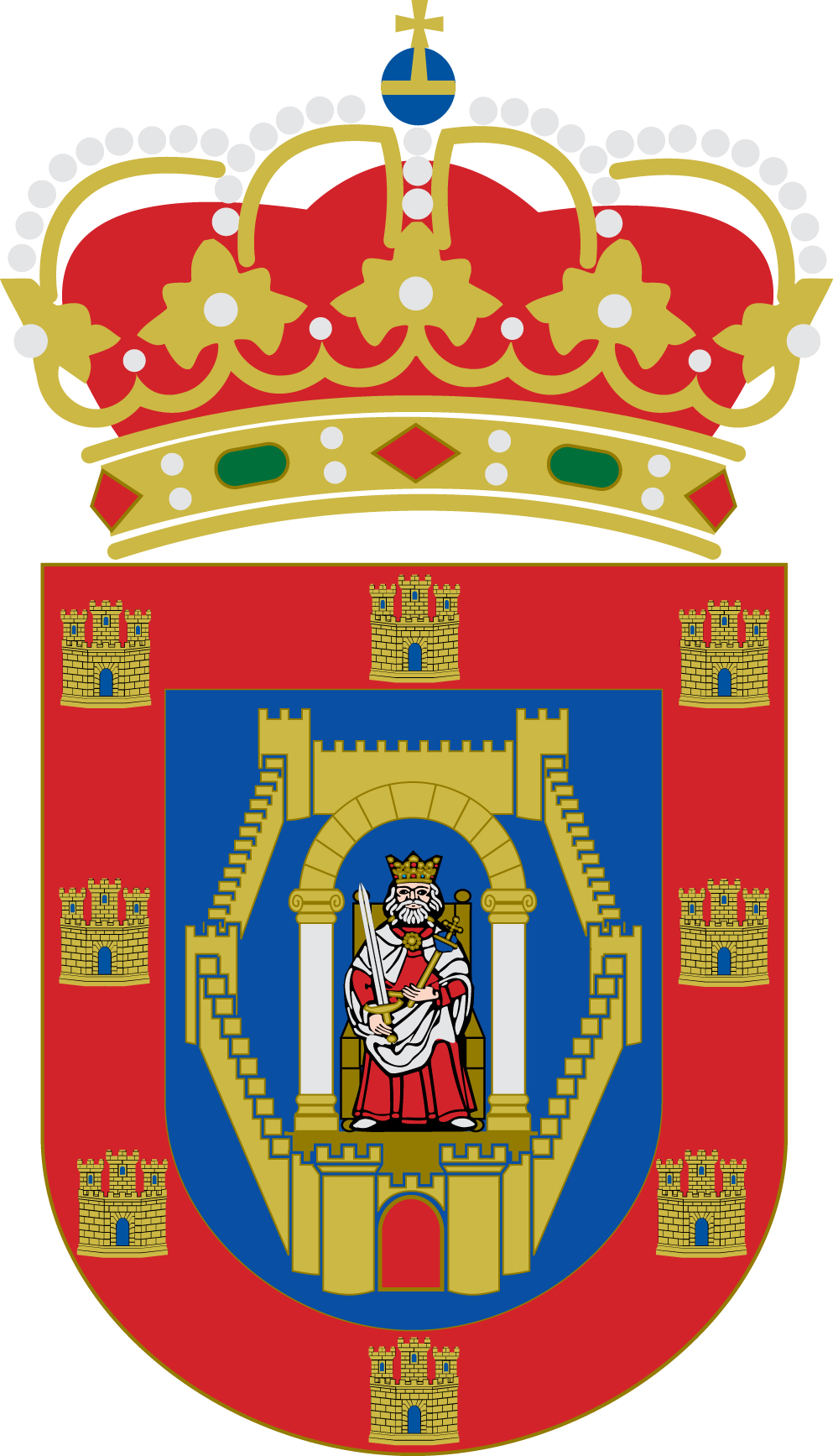 Municipal Coat of Arms of Ciudad Real, Ciudad Real (Spain)